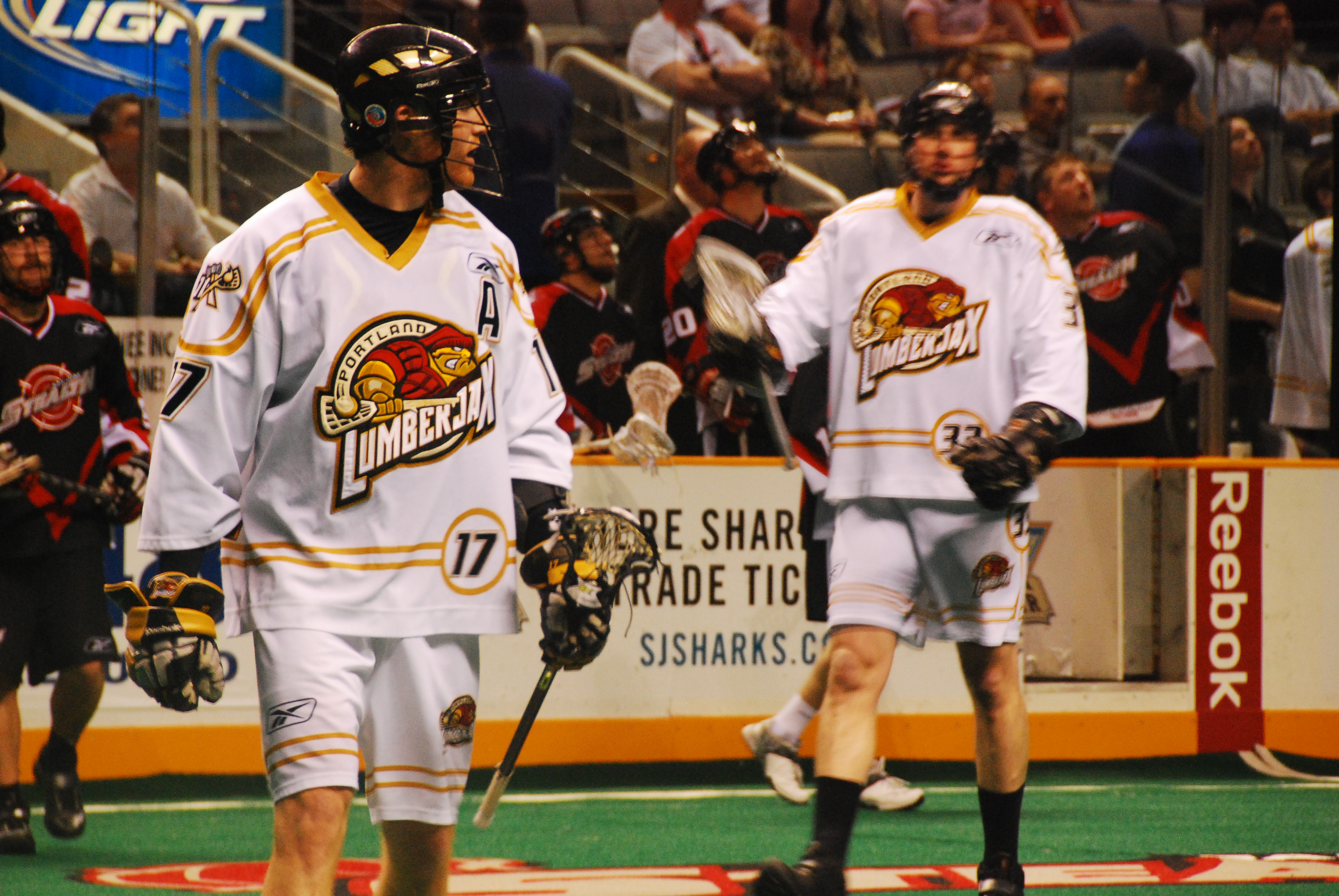 Brodie Merrill (17). Portland Lumberjax is a professional lacrosse team in the National Lacrosse League.